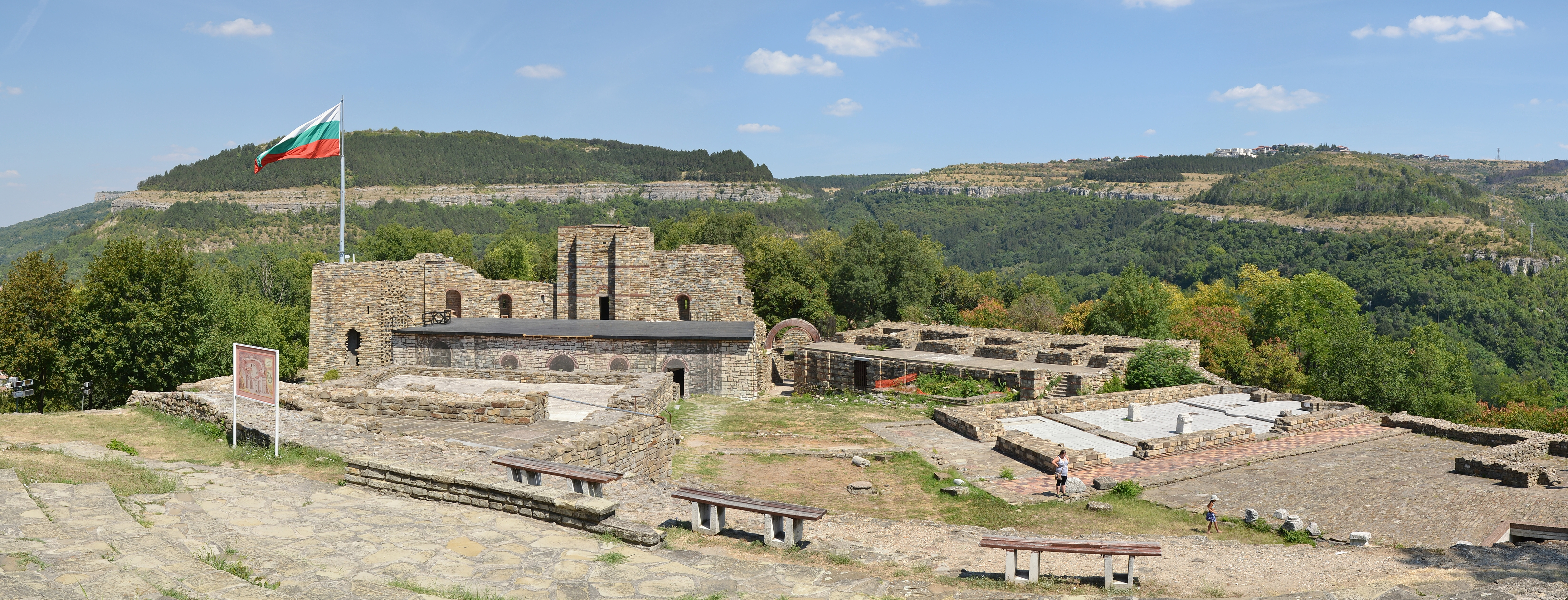 Veliko Tarnovo (Велико Търново) - Tsarevets (ruinf of the Palace)